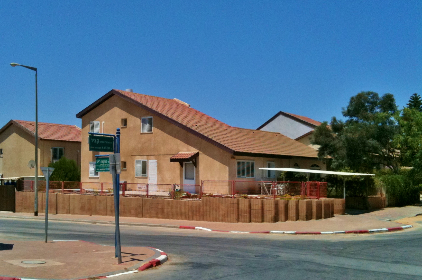 A Cottage in Ramot Alef, Beersheba, Israel